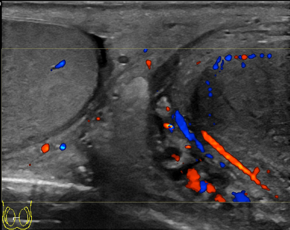 Doppler ultrasound of the scrotum, in the axial plane, of a 70 year old man with left-sided pain in the region, as well as CRP elevation. It shows orchitis (as part of epididymo-orchitis) as a hypoechogenic and slightly heterogenic left testicular tissue (right in image), with an increased blood flow. There is also swelling of peritesticular tissue.